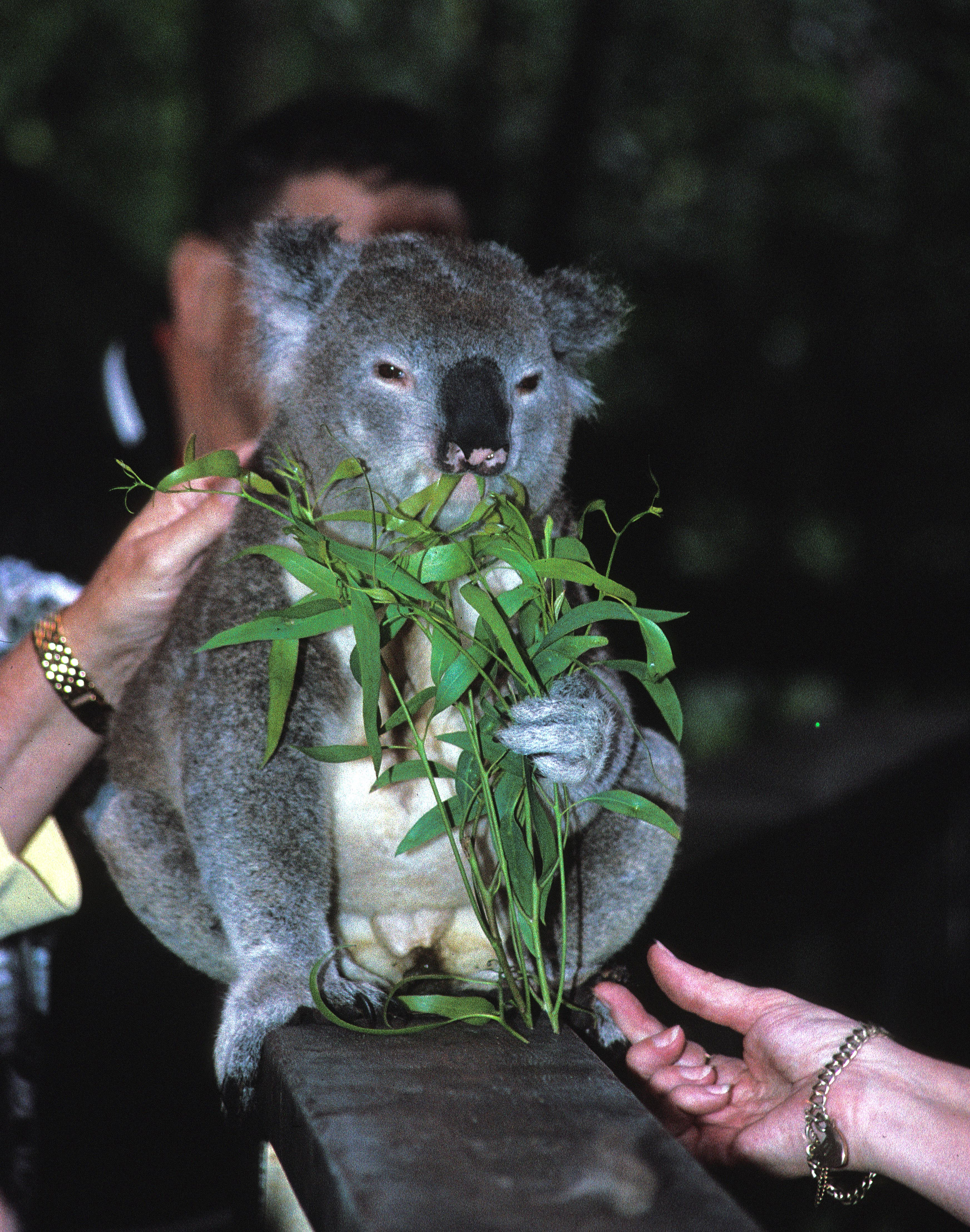 KOALA BEAR, in Koala Park near Sydney, New South Wales, Australia, FOR WHICH THE PARK IS MOST NOTED; SPEND 20 HOURS IN THE FORK OF A TREE JUST EATING EUCALYPTUS LEAVES WHICH ARE HIGHLY TOXIC TO MOST ANIMALS